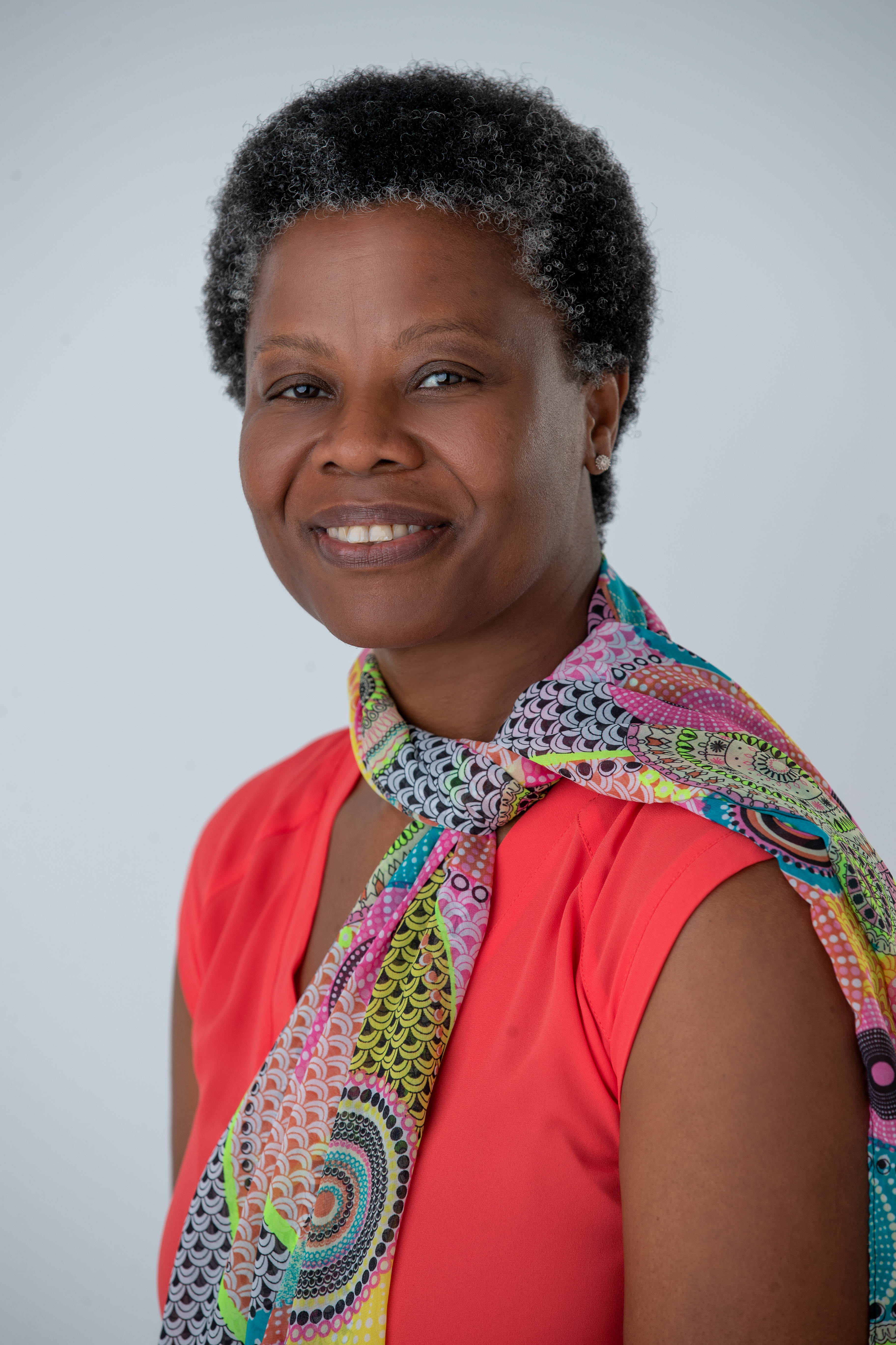 Angela Nzambi